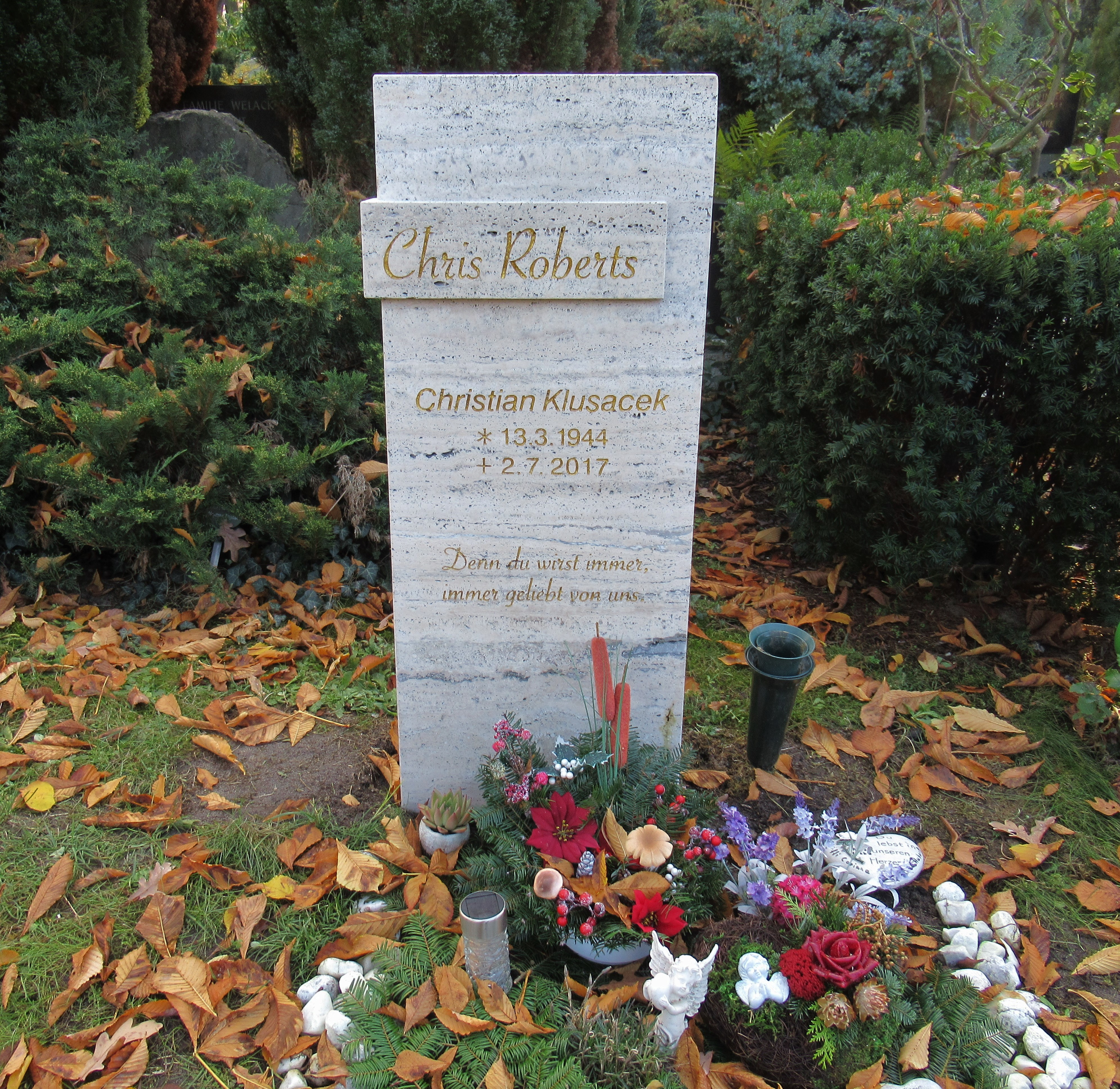 Grave of German Schlager singer (and actor) Chris Roberts at Alter St.-Matthäus-Kirchhof Berlin in Berlin-Schöneberg